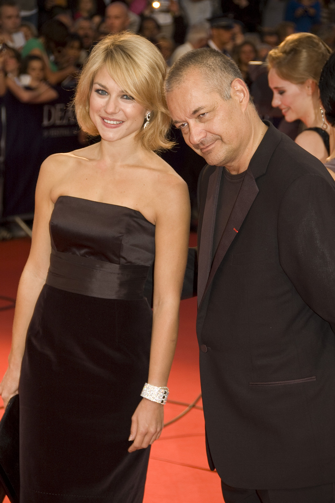 Émilie Dequenne and Jean-Pierre Jeunet on the red carpet for the screening of the movie Me and Orson Welles Deauville 2009